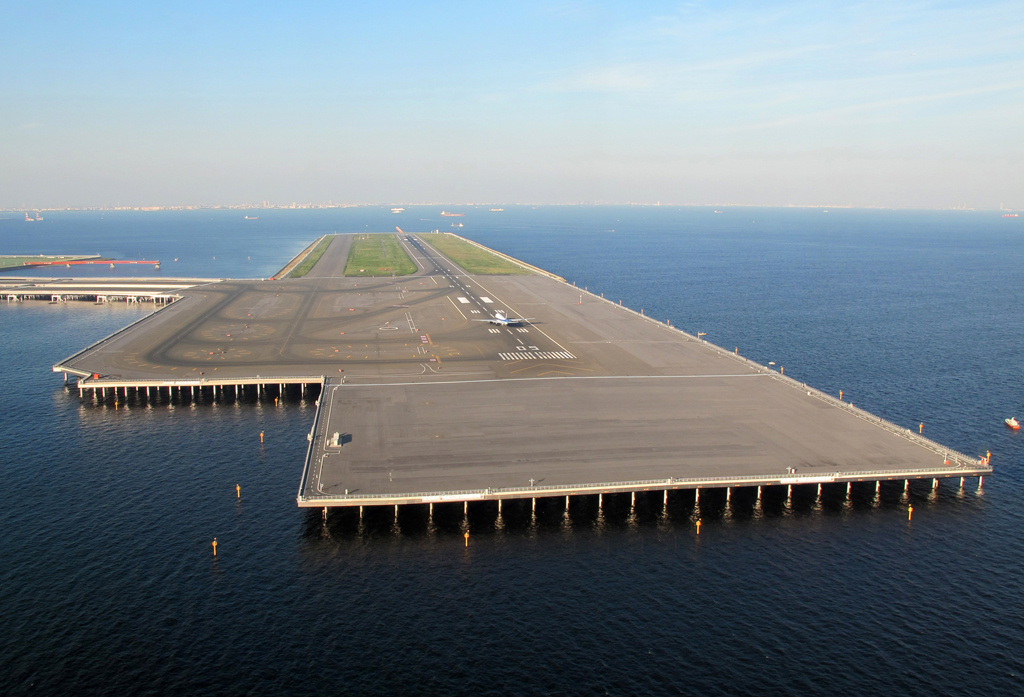 ANA Boeing 777 lined up for take off at Tokyo Haneda